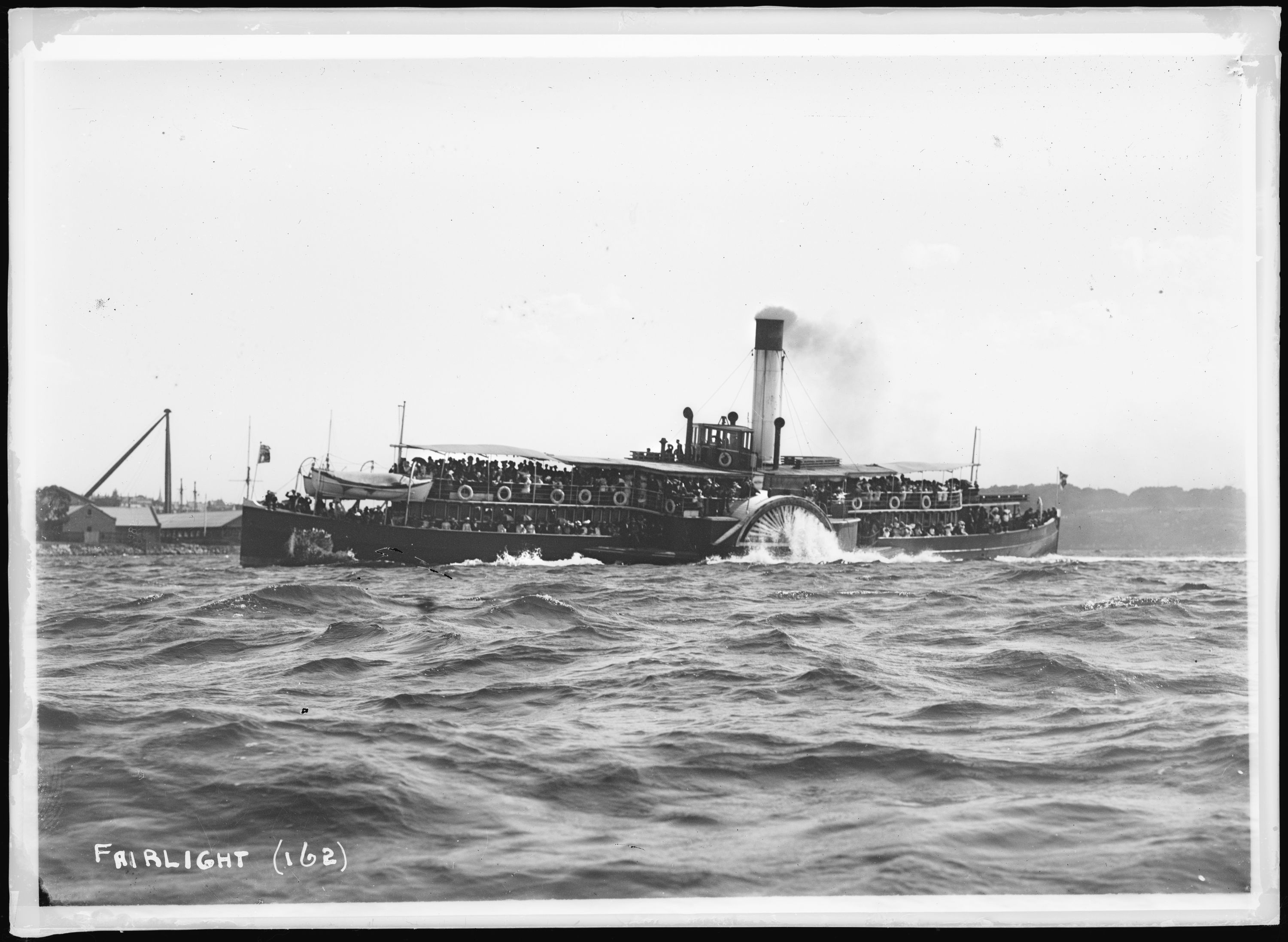 Sydney Ferry FAIRLIGHT 1893 to 1908 Museum of Applied Arts & Sciences. Glass plate negative of Manly paddle ferry 'Fairlight' passing Garden Island, Sydney Harbour, 1893-1908. Museum of Applied Arts & Sciences, Australia.